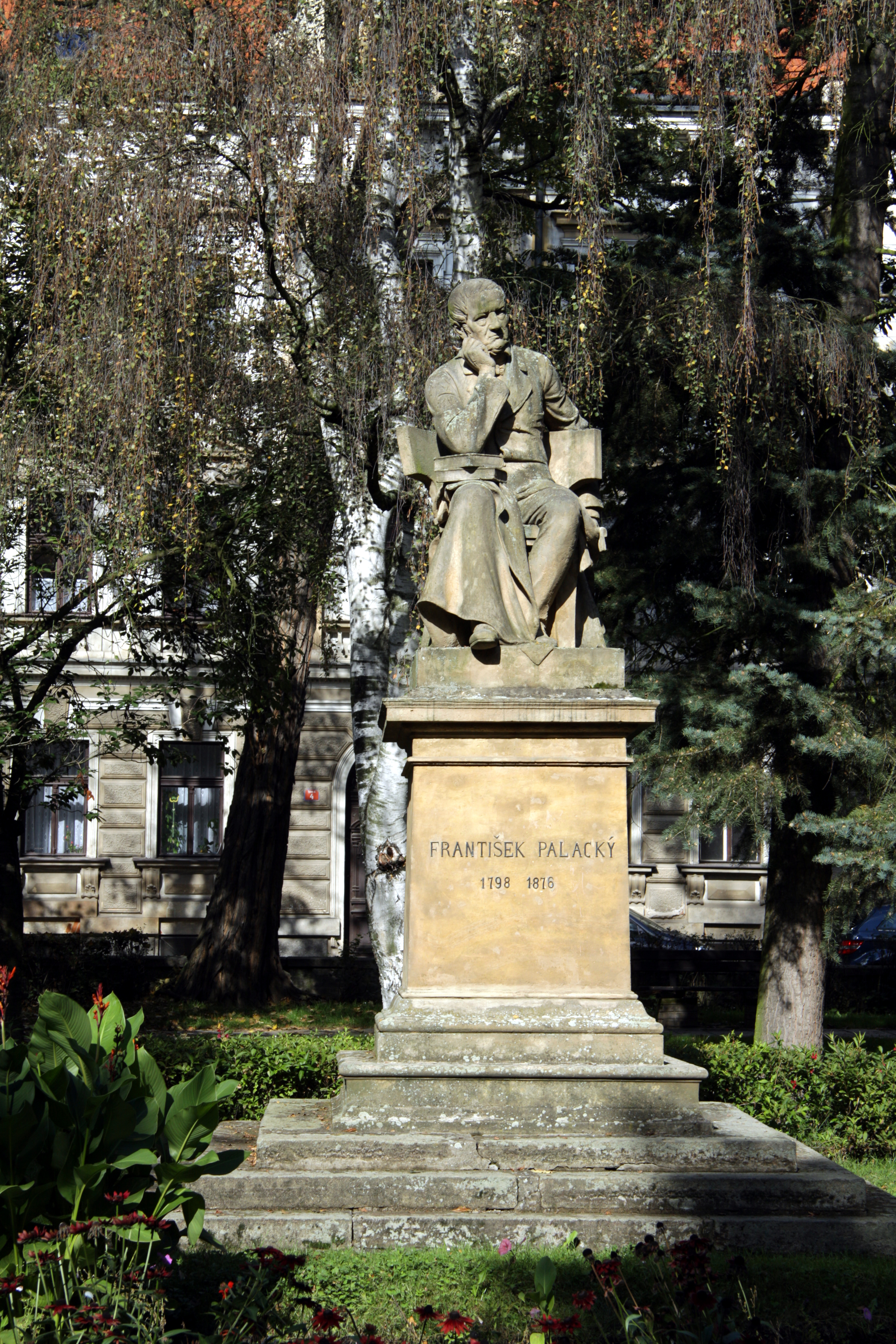 Monument to Adolf Heyduk in Palackého sady, Písek, Písek District, Czech Republic